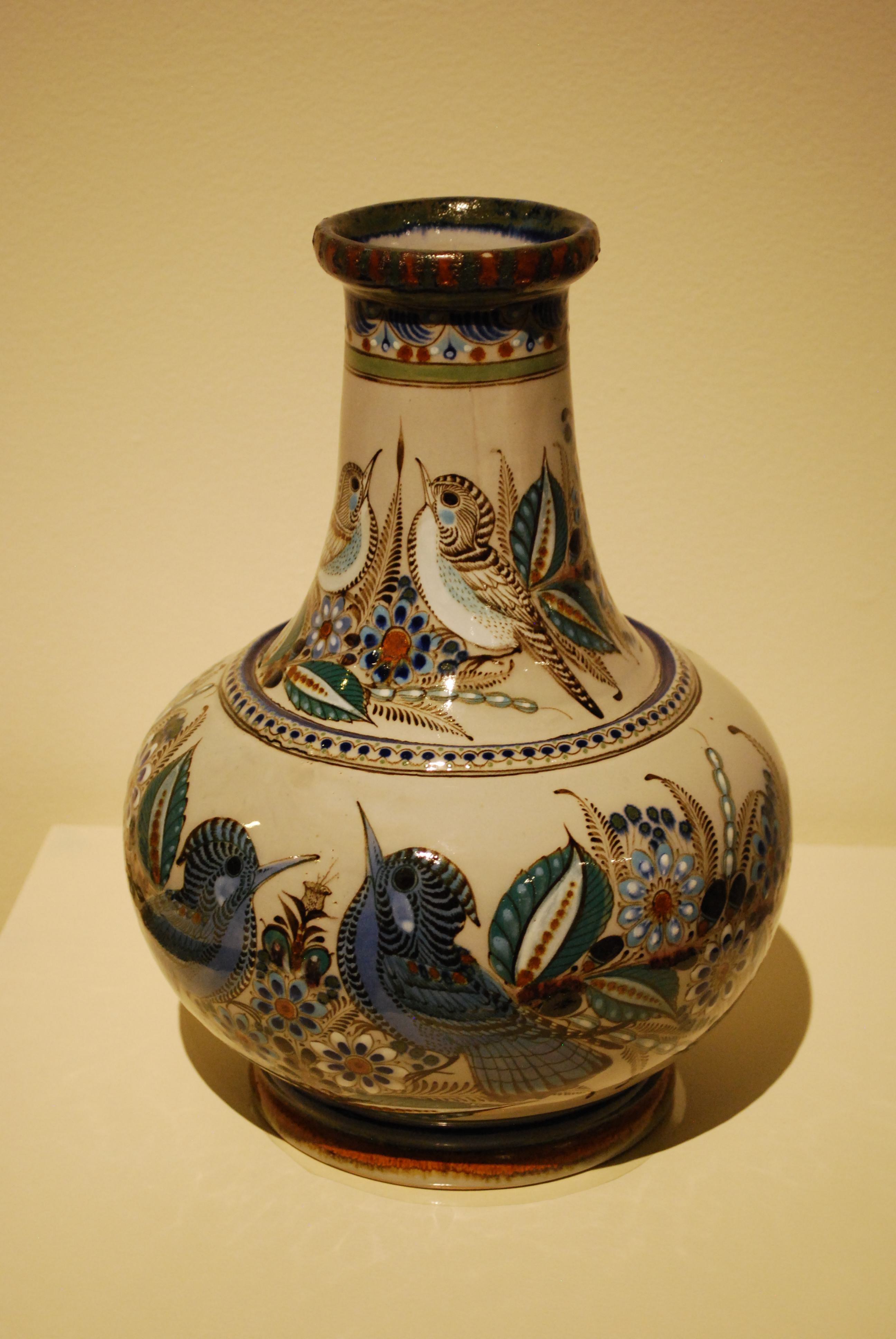 Flower vase with pairs of birds (high fire) by Ken Edwards of Tlaquepaque, Jalisco on display at the Museo de Arte Popular in Mexico City